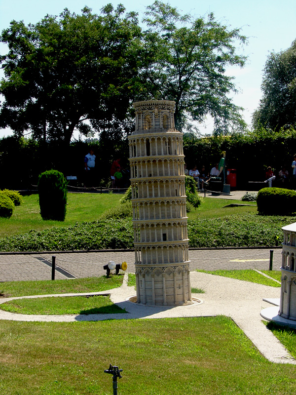 Model of Campanile in Pisa (Italy) in Mini-Europe Brussels